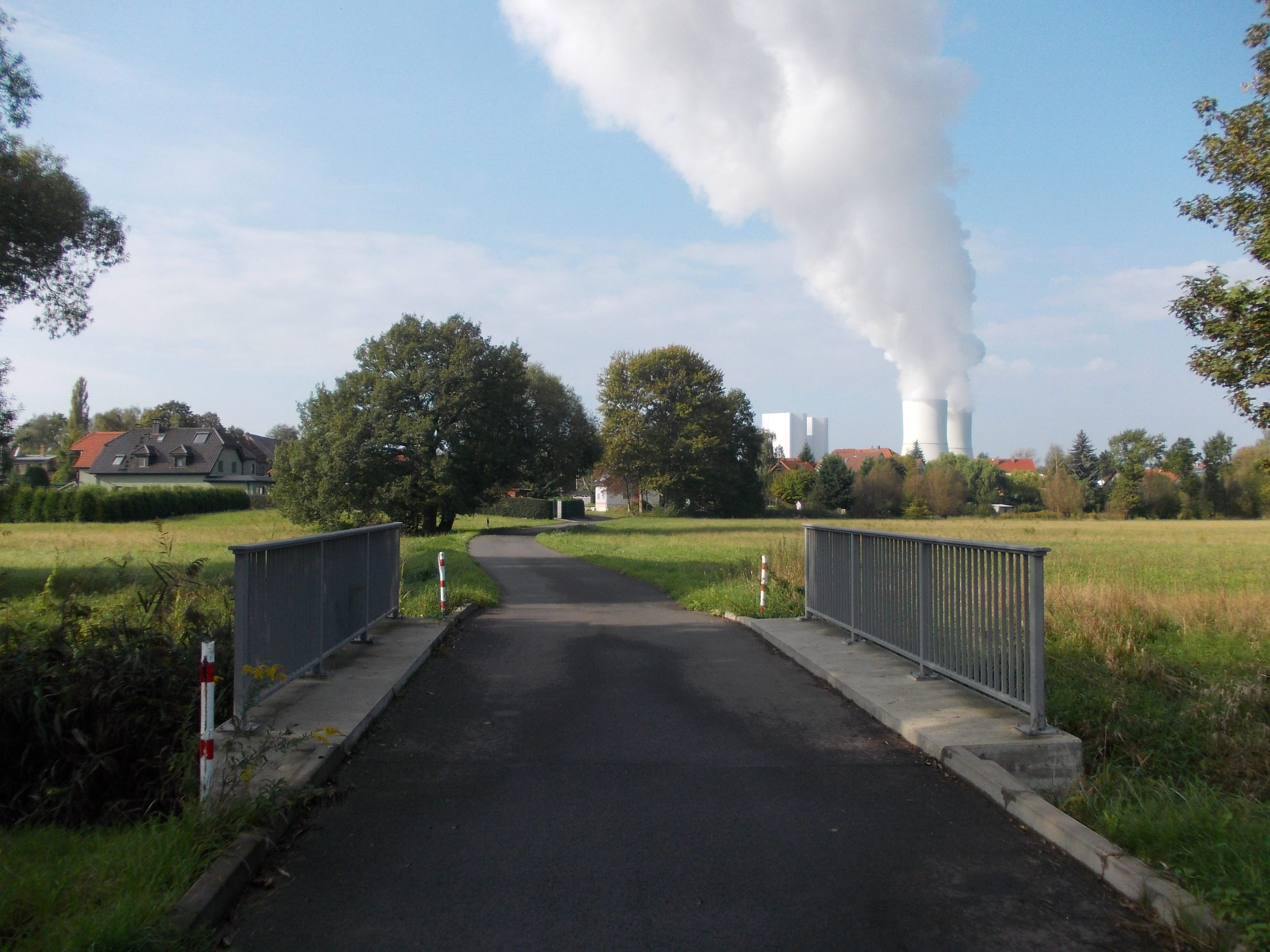 Gaulis (Böhlen, Leipzig district, Saxony) from the east, with Lippendorf Power Station in the background